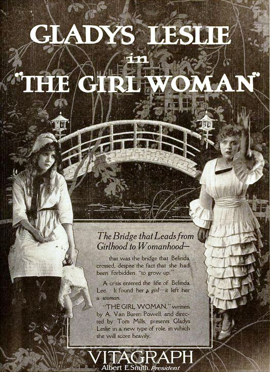 Ad for the American film The Girl-Woman (1919) with Gladys Leslie, page 1003 of the August 2, 1919 Motion Picture News